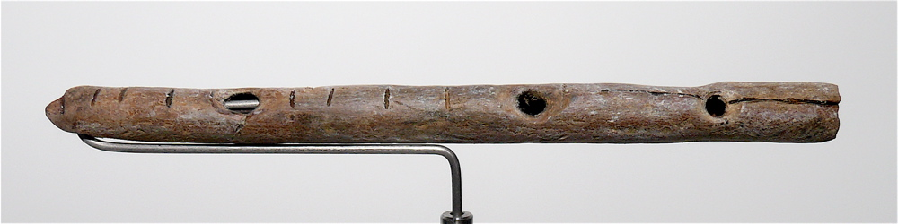 Bone flute dated in the Upper Paleolithic from Geissenklösterle, a german cave on the Swabian region. Replica.